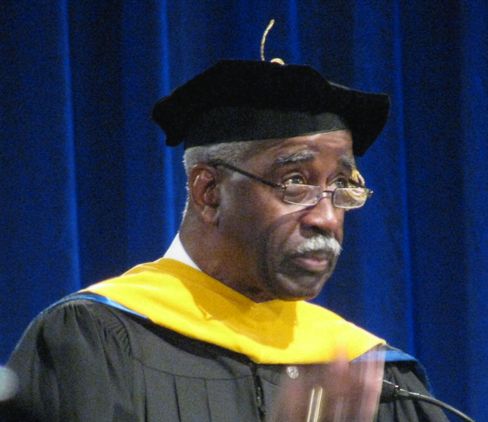 Willie Evans accepting the Norton Medal, on behalf of the entire 1958 University at Buffalo football team, at the 2009 UB commencement ceremony.